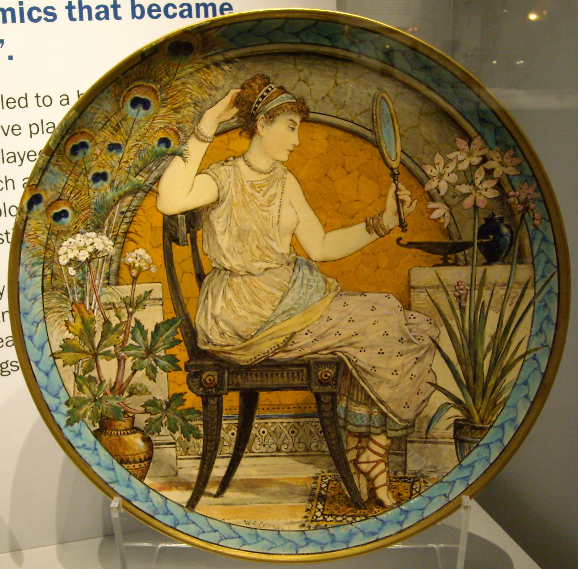 Earthenware plate made by Minton in 1869. Designed by William Stephen Coleman (1829-1904). On display in The Higgins museum and gallery, Bedford.